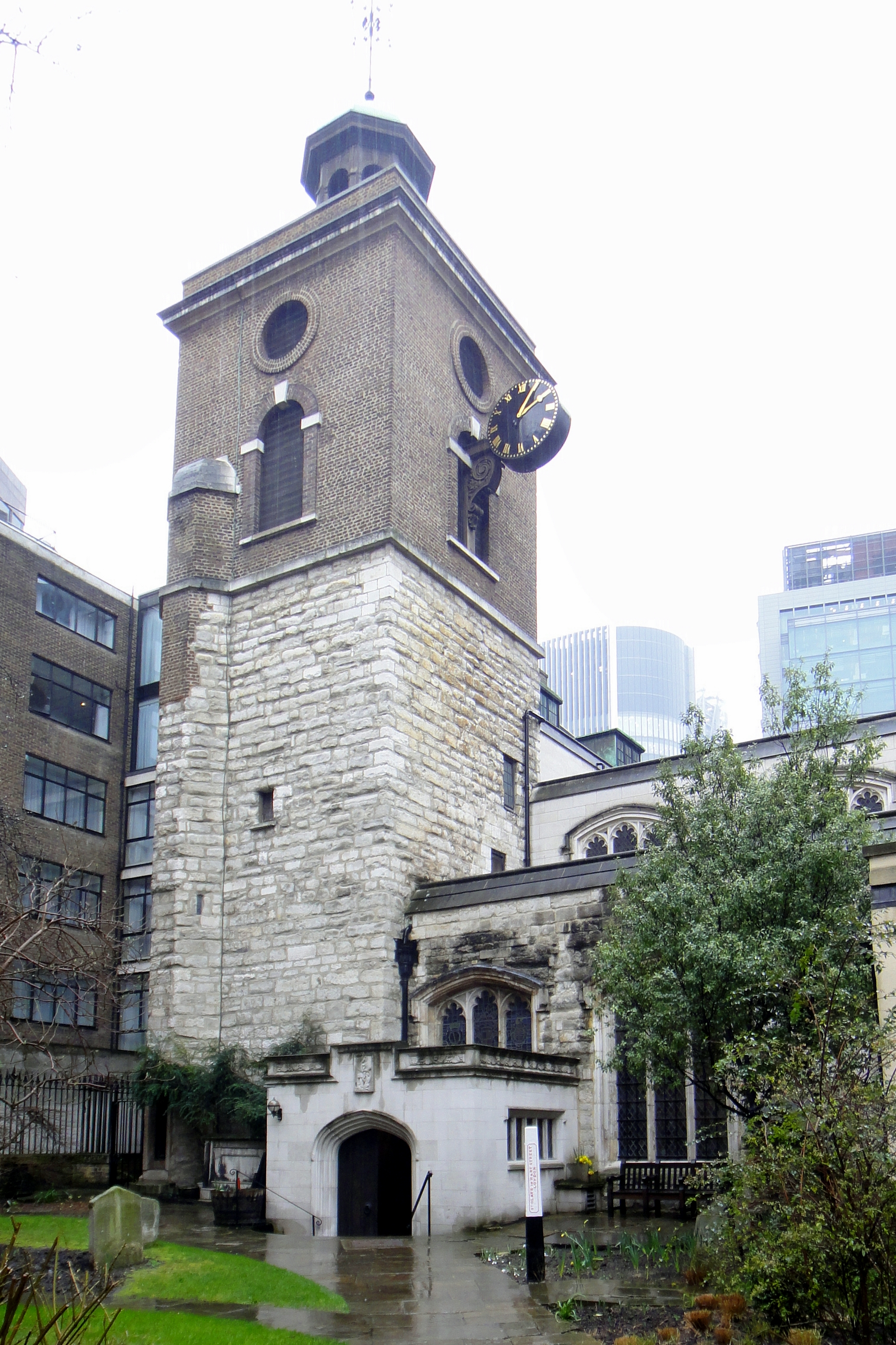 St Olave Hart Street, London